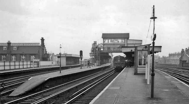 Battersea Park Station. View southward, away from Victoria, on main line Victoria - Clapham Junction etc., showing the South London Line (to London Bridge via Denmark Hill) curving away on left. The train at the platform is a Beckenham Junction - Victoria service via Crystal Palace.